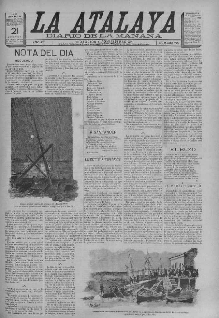 La Atalaya, 21.3.1895, front page, 2 drawings by Mariano Pedrero